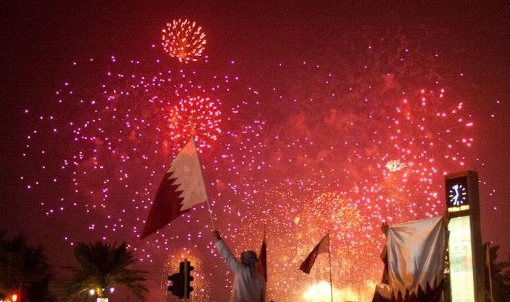 Firework show on Qatar National Day.